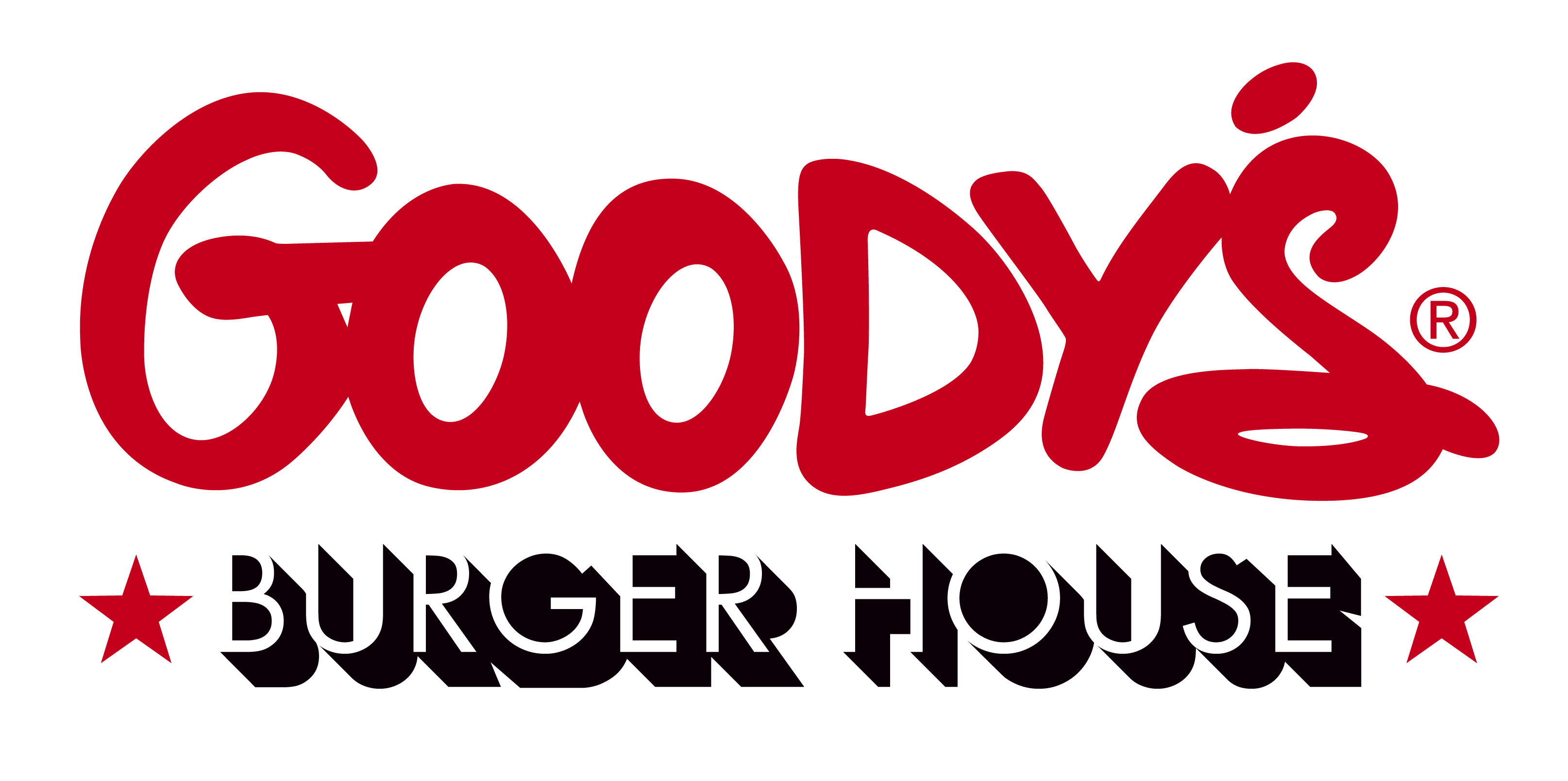 This is a logo for Goody's